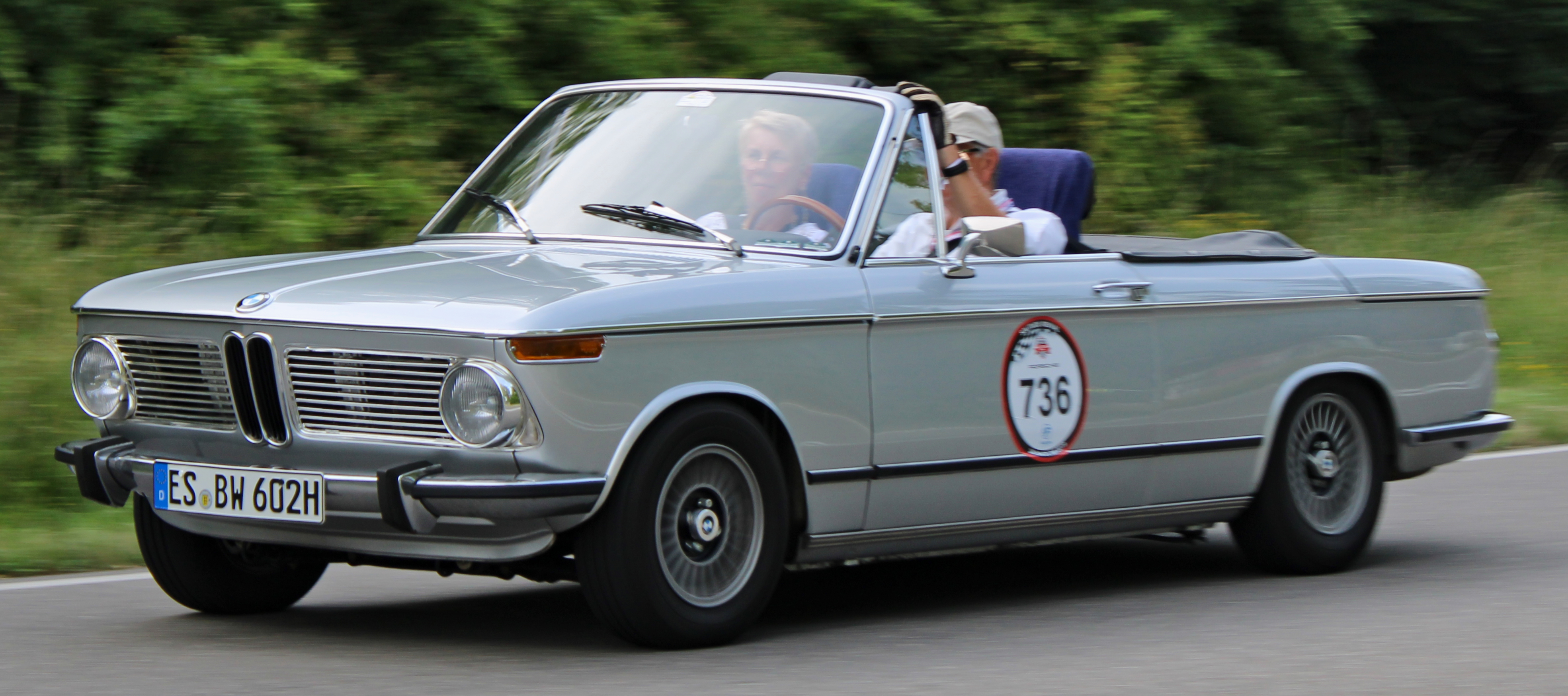 BMW 1600-2 Vollcabrio (1971) at Solitude Revival 2019